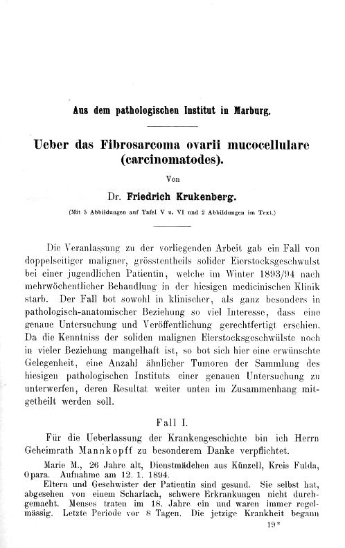 first page of classic Krukenberg's paper